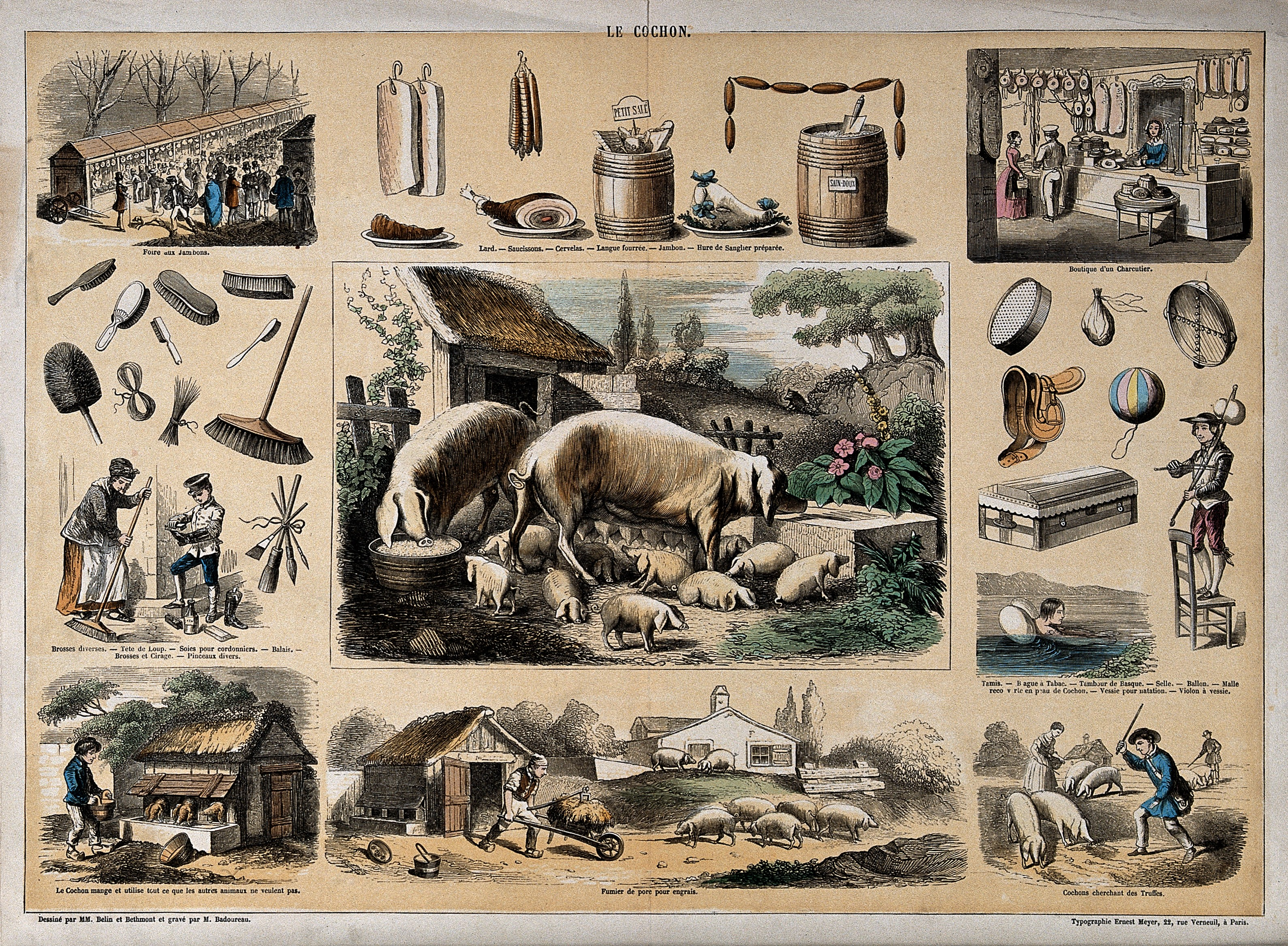 Pigs and a litter of piglets, surrounded by vignettes showing the use of porcine products. Coloured lithograph by Badoureau after Belin and Belmont. Iconographic Collections Keywords: Badoureau; belmont; pigs and piglets; badoureau; Belin et Belmont.; belin; ic; porcine products; Swine